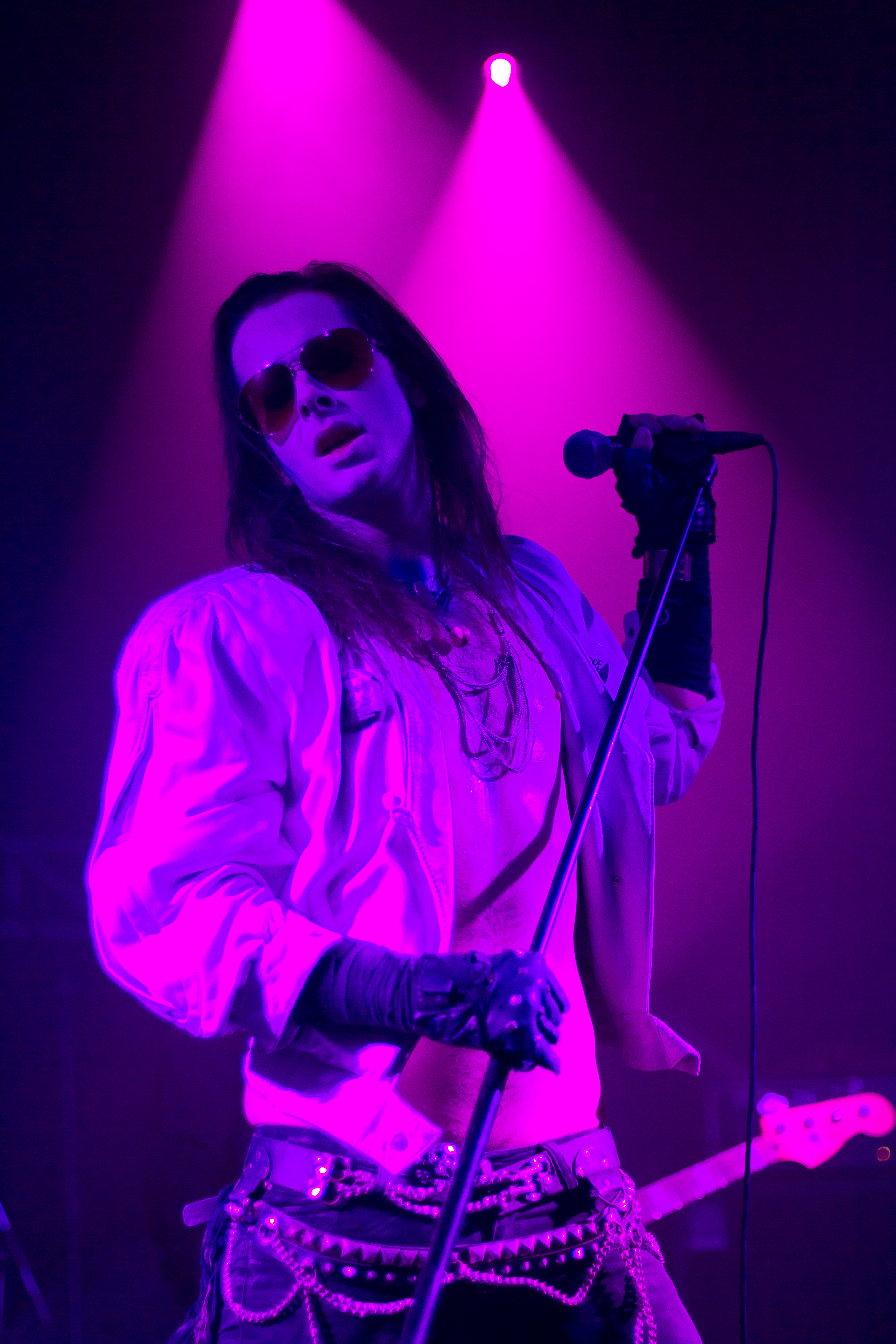 The French cold wave band Soror Dolorosa at the Wave-Gotik-Treffen 2015 in Leipzig/Germany